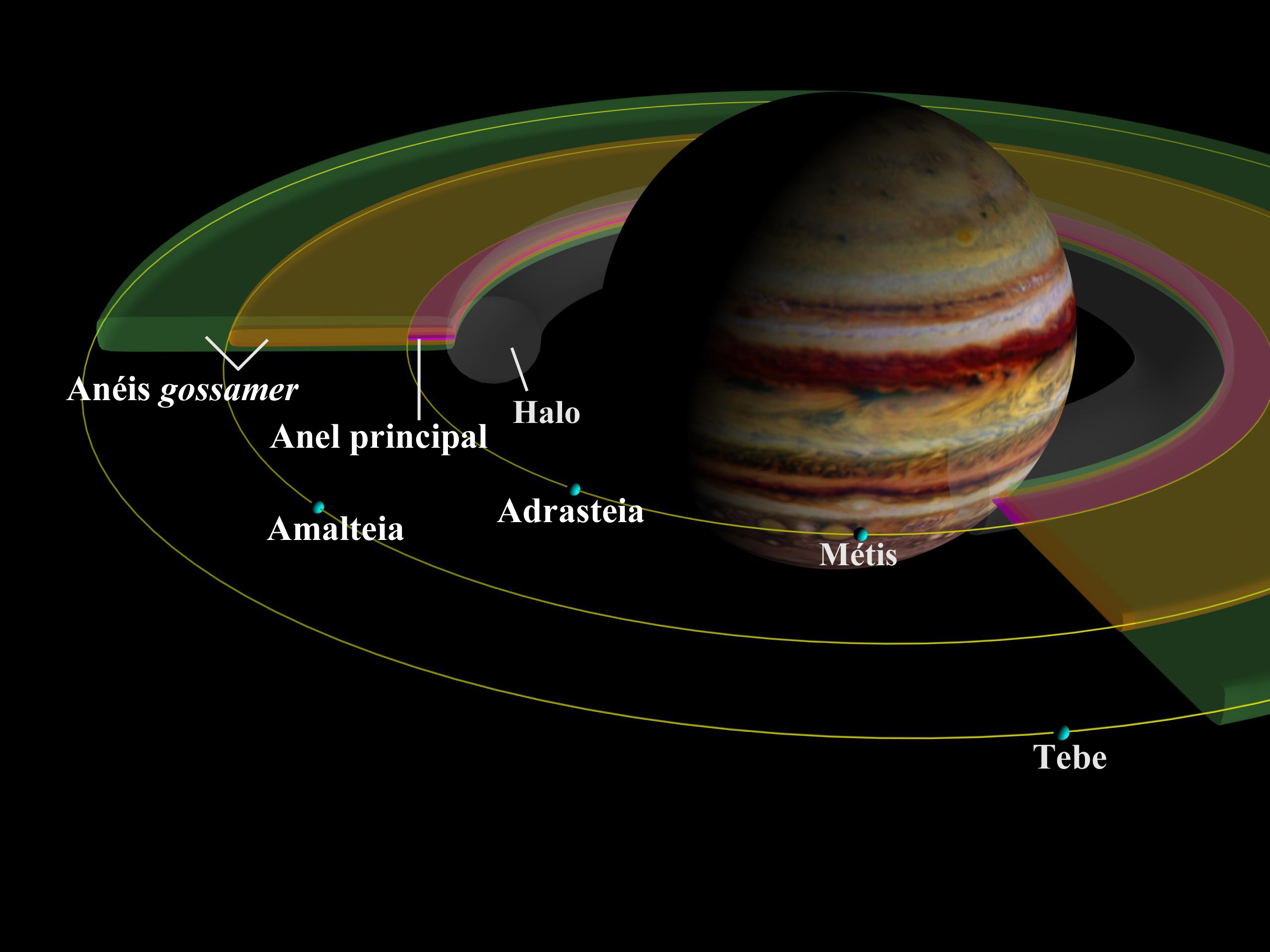 Rings of Jupiter.